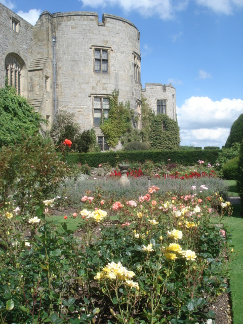 Rose garden at Chirk Castle Looking northwards along the eastern wall of the castle.